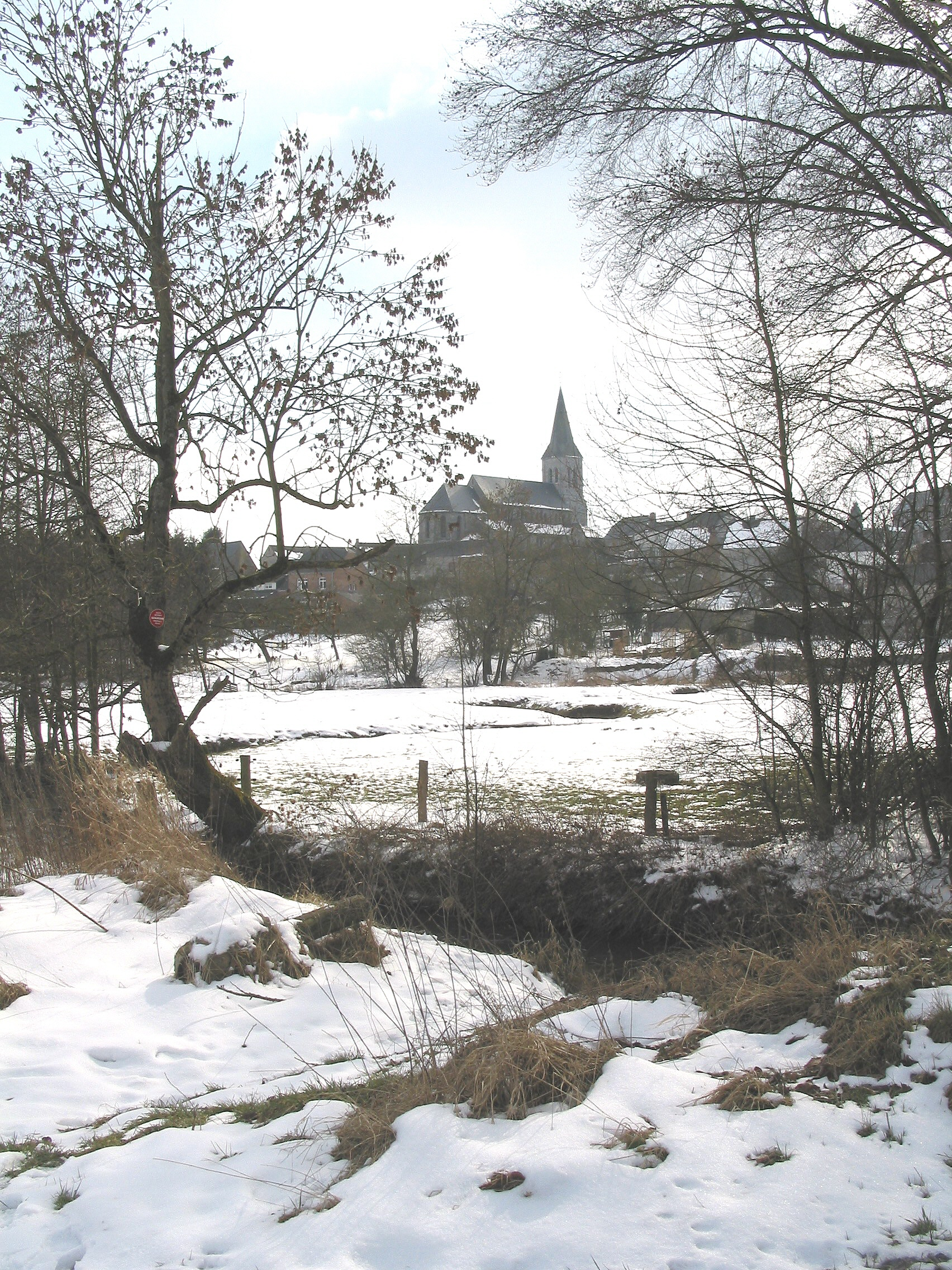 Natoye (Belgium), view on the village and on the Our Lady of the Assumption church (1902-1903).